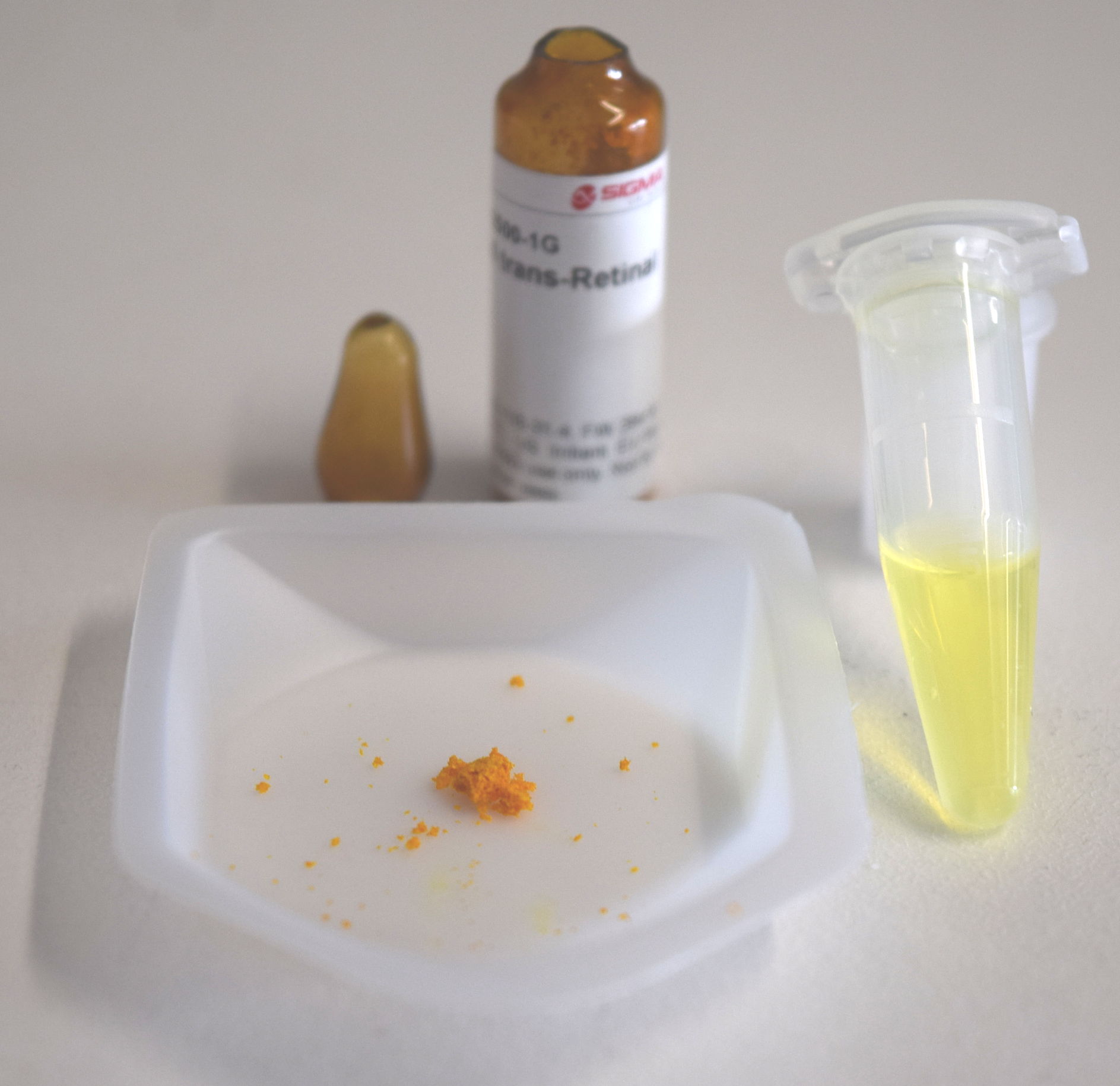 Shown is a flask of all-trans-Retinal, a sample of the substance and 500 µl of a 1 mmol solution in Isopropyl alcohol.